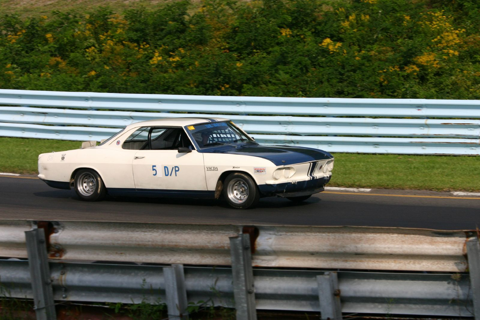 1965 Yenko Stinger, a modified Corvair